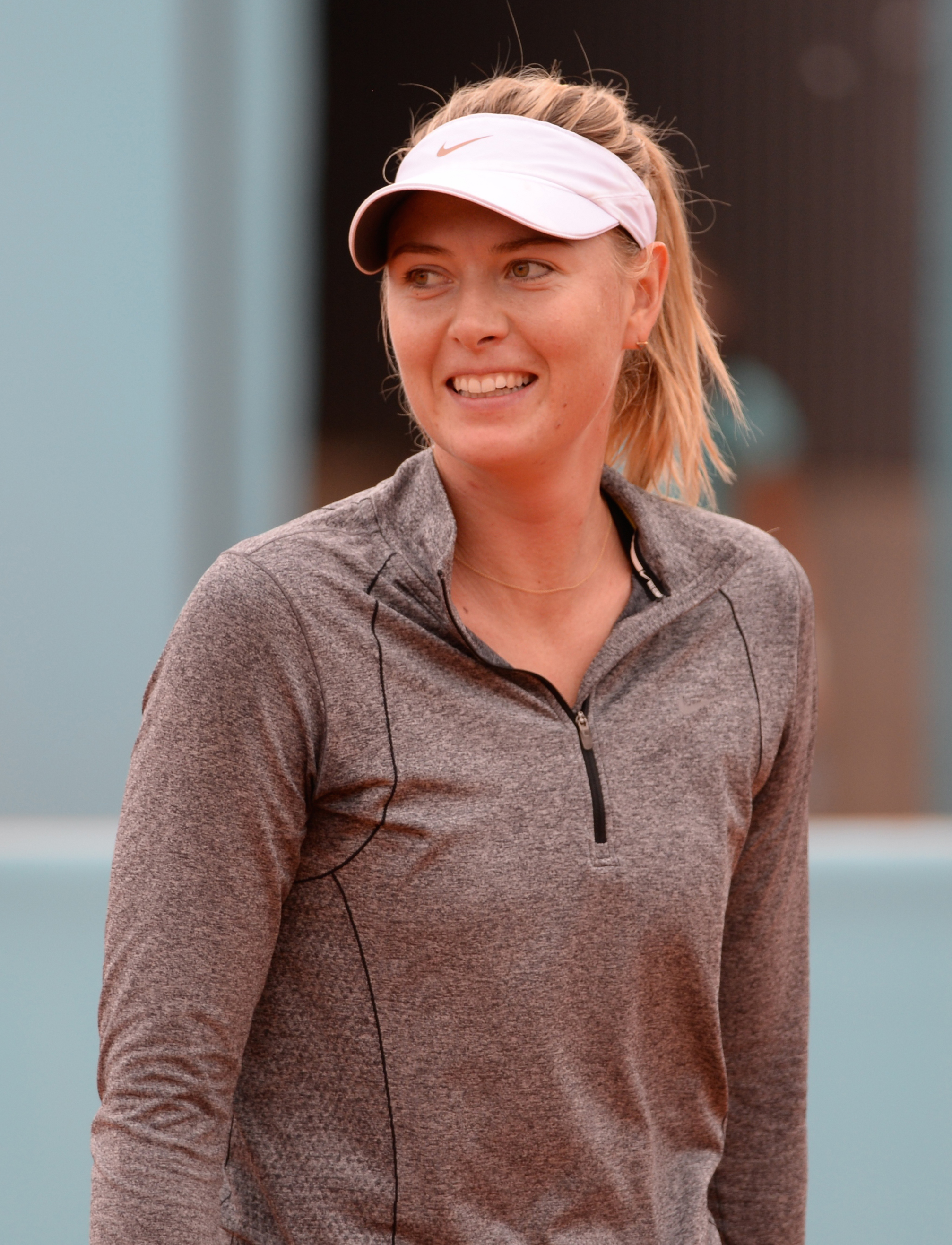 Maria Sharapova of Russia after her quarter-final match at the 2017 Tianjin Open WTA International tennis tournament